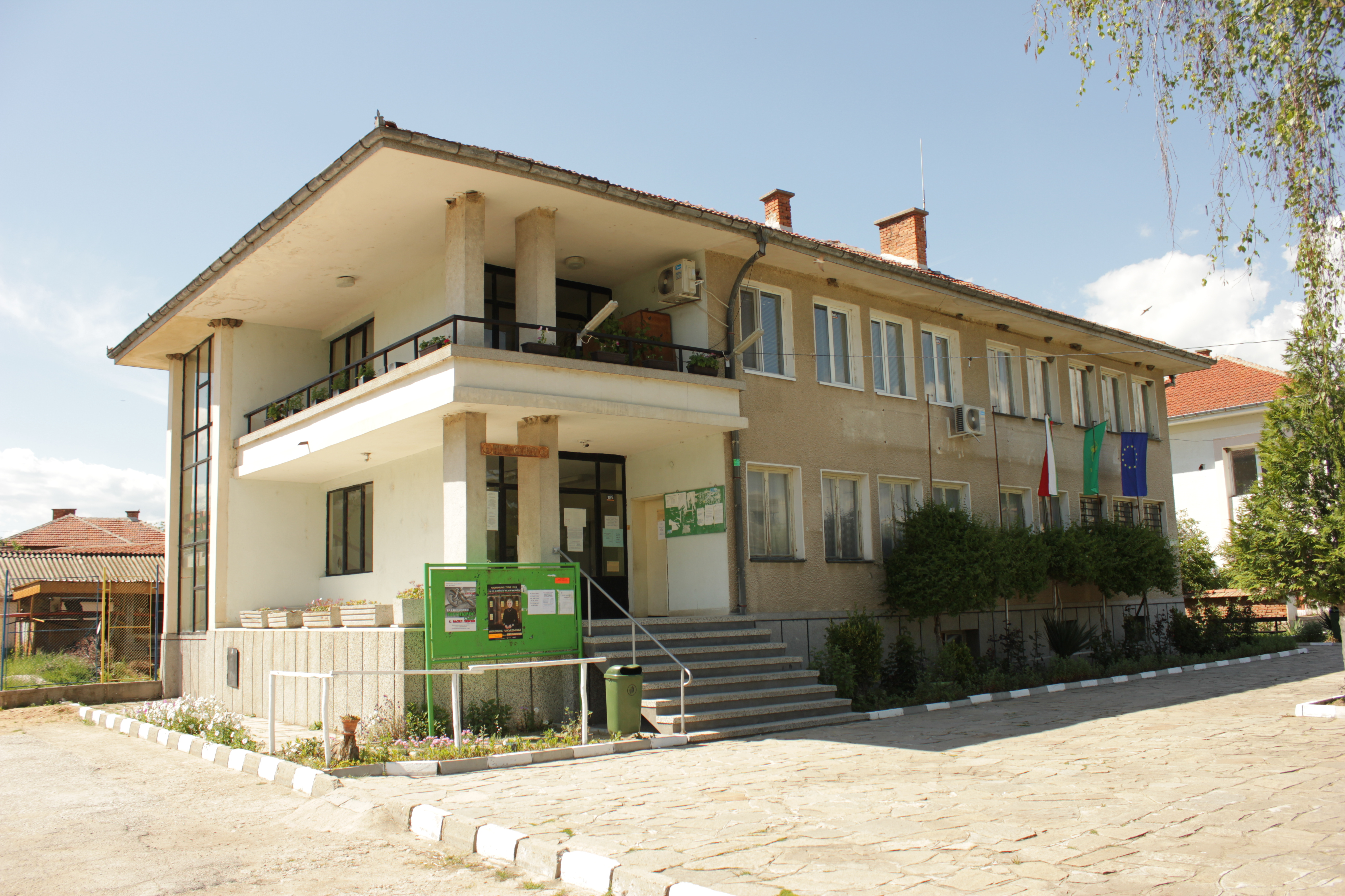 Voynyagovo municipality office